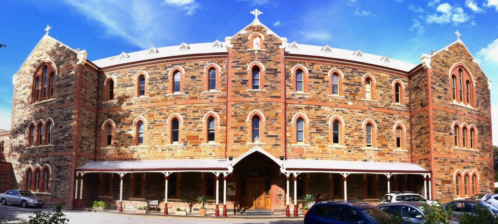 Convent of Cabra Dominican College, Adelaide